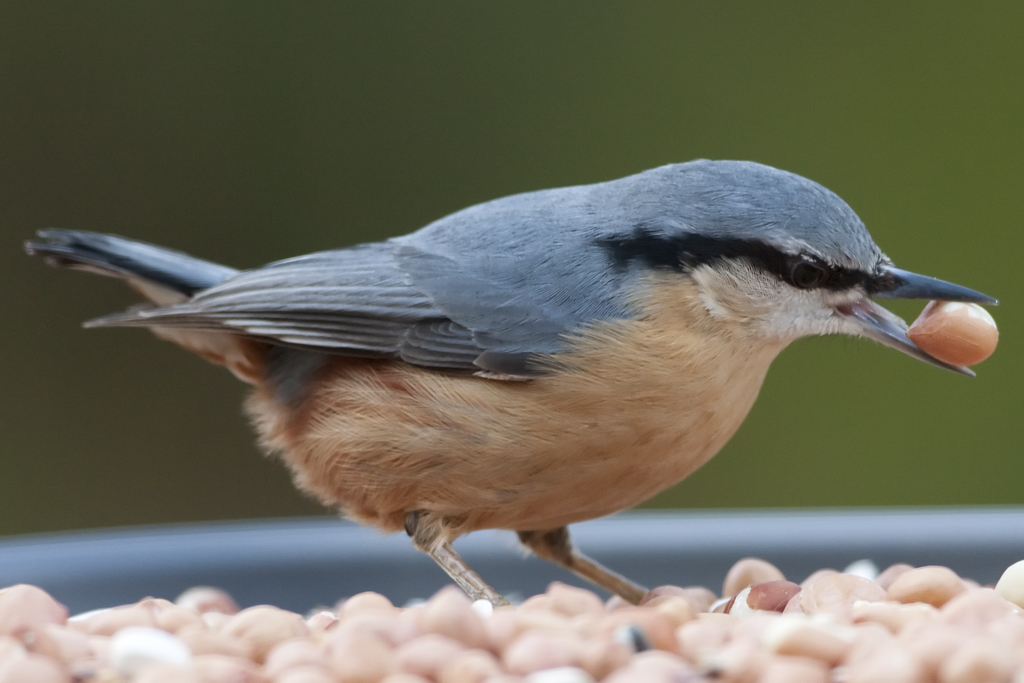 Sitta europaea caesia, a subspecies of Eurasian Nuthatch (Sitta europea)